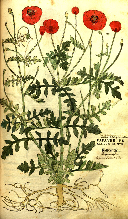 Plate from 1542 book "De historia stirpium commentarii insignes". Text by Leonhart Fuchs and illustrations by Albrecht Meyer, Heinricus Füllmaurer and Veit Rudolph Speckle